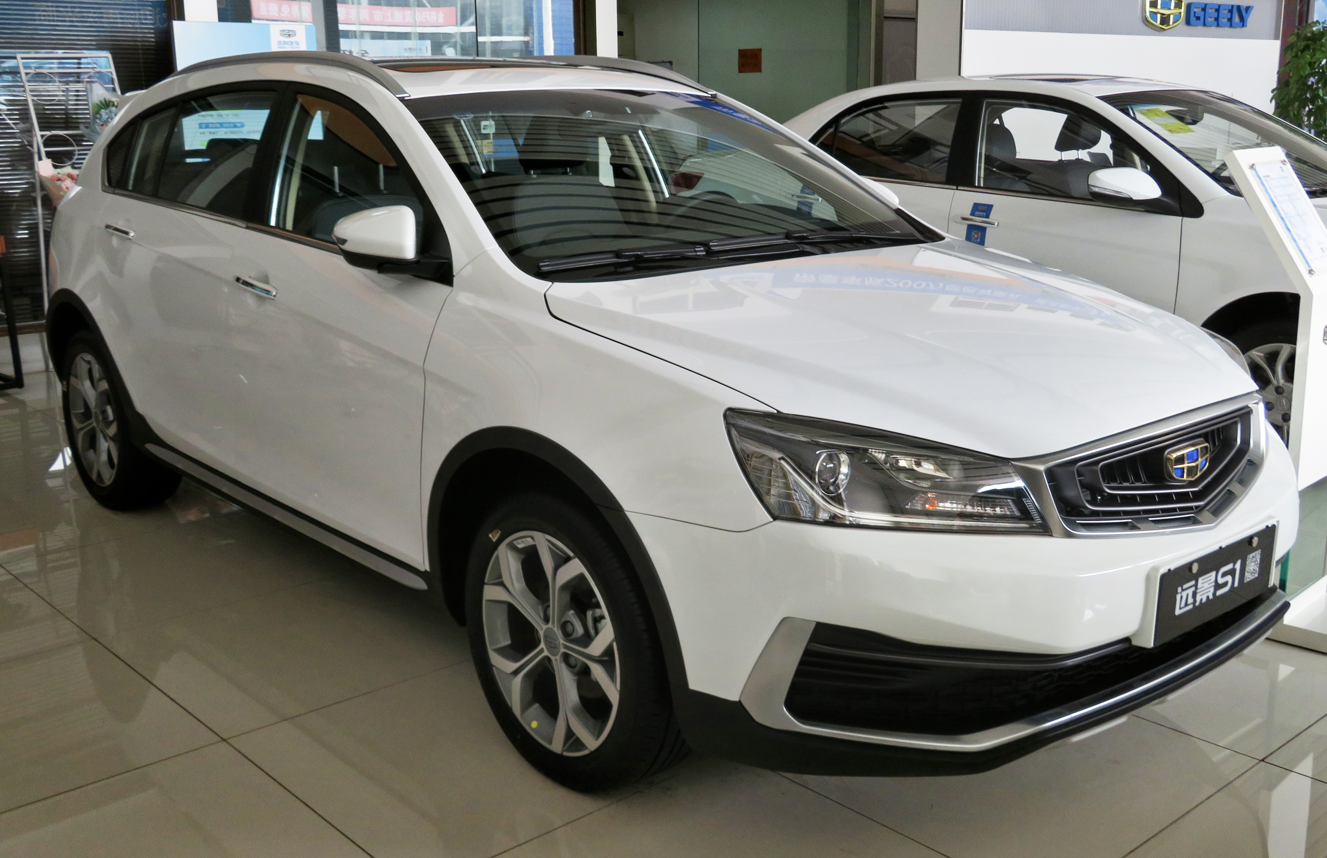 A 2018 Geely Yuanjing S1 photographed at Guanlinzhen, in Luoyang, Henan province, China